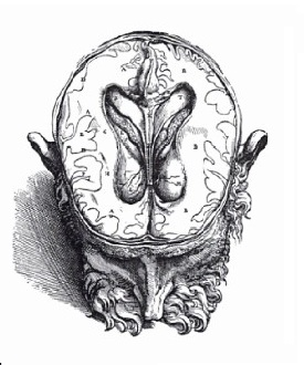 horizontal section of the human brain from Book VII of Andreas Vesalius "De Humani Corporis Fabrica", crop, taken by me from a full page scan, which is PD and is available there on Commons